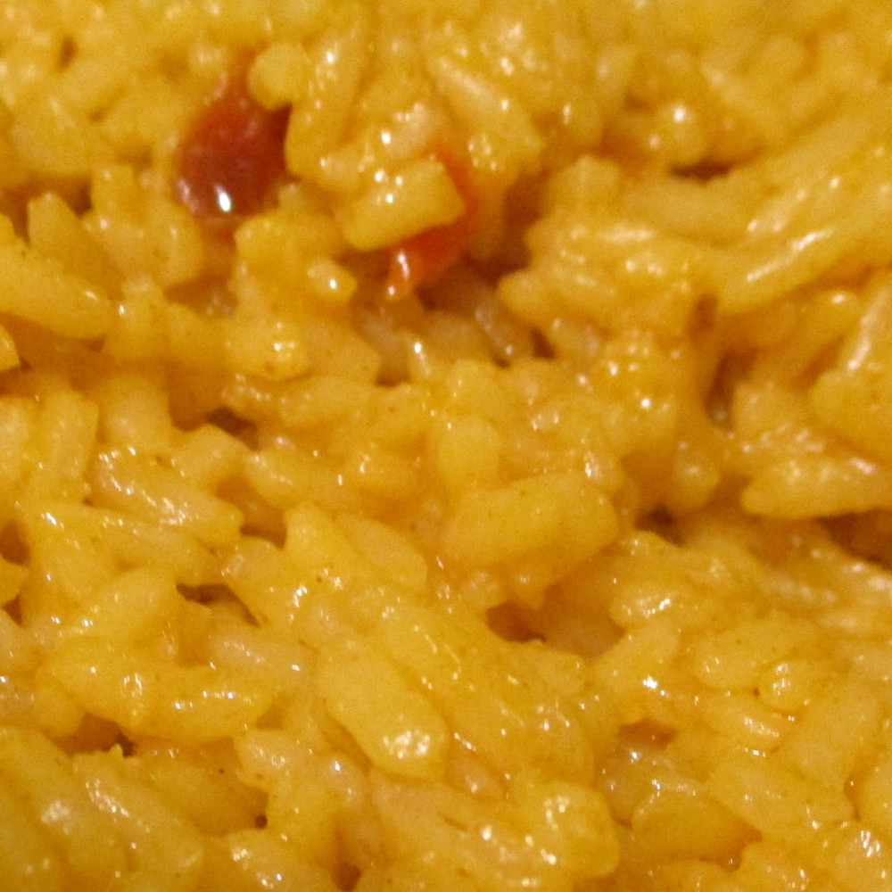 Close up showing texture of Spanish rice from a mix.